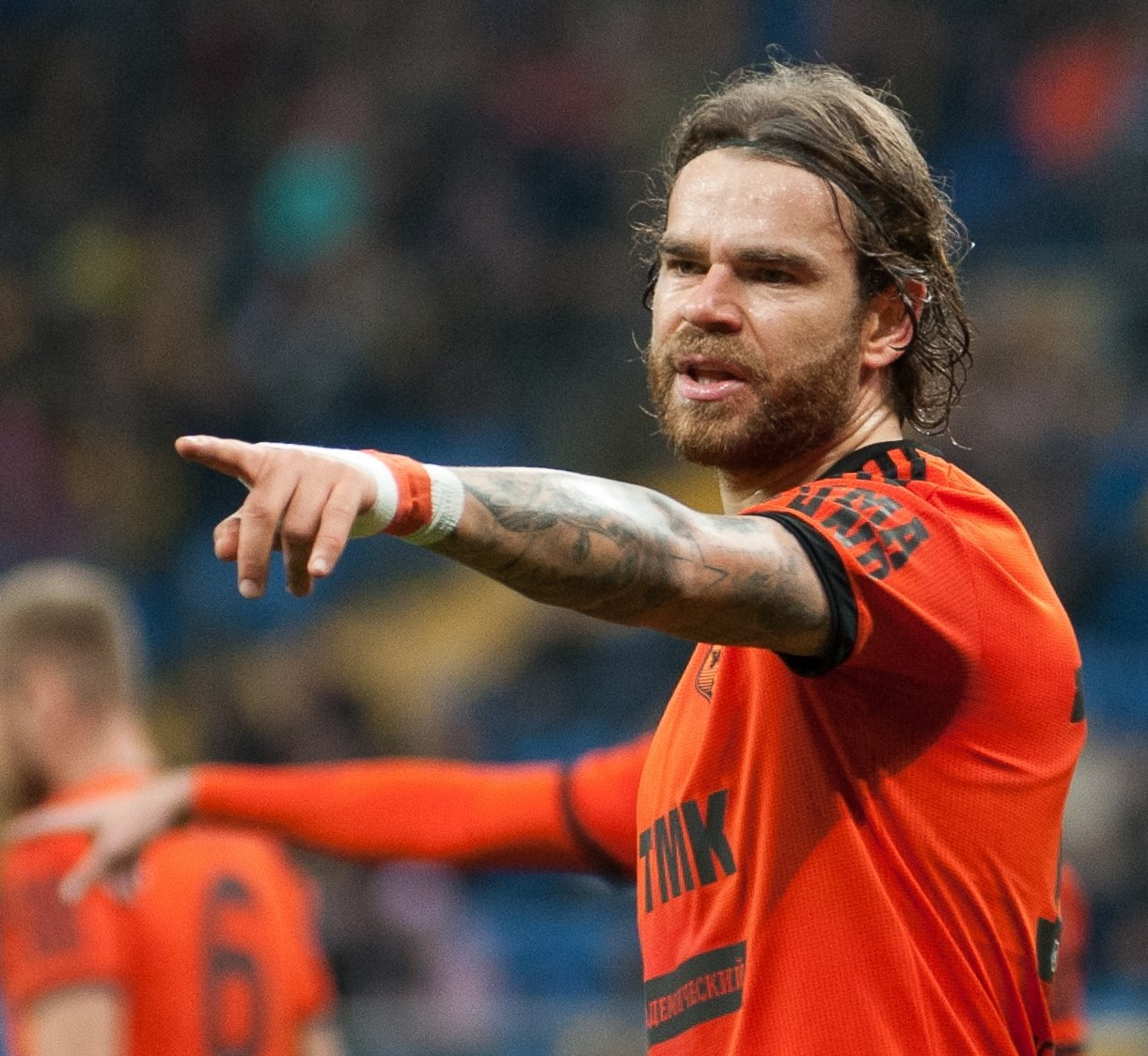 Eric Bicfalvi with FC Ural Yekaterinburg in a game against FC Rostov.